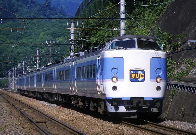 A JR East 183 series EMU on a Kaiji limited express service